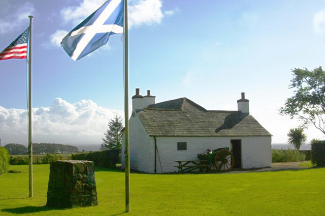 John Paul Jones's Cottage The view out over the Solway Firth - the one that inspired a young John Paul Jones to go to sea and later become "The Father Of The American Navy".